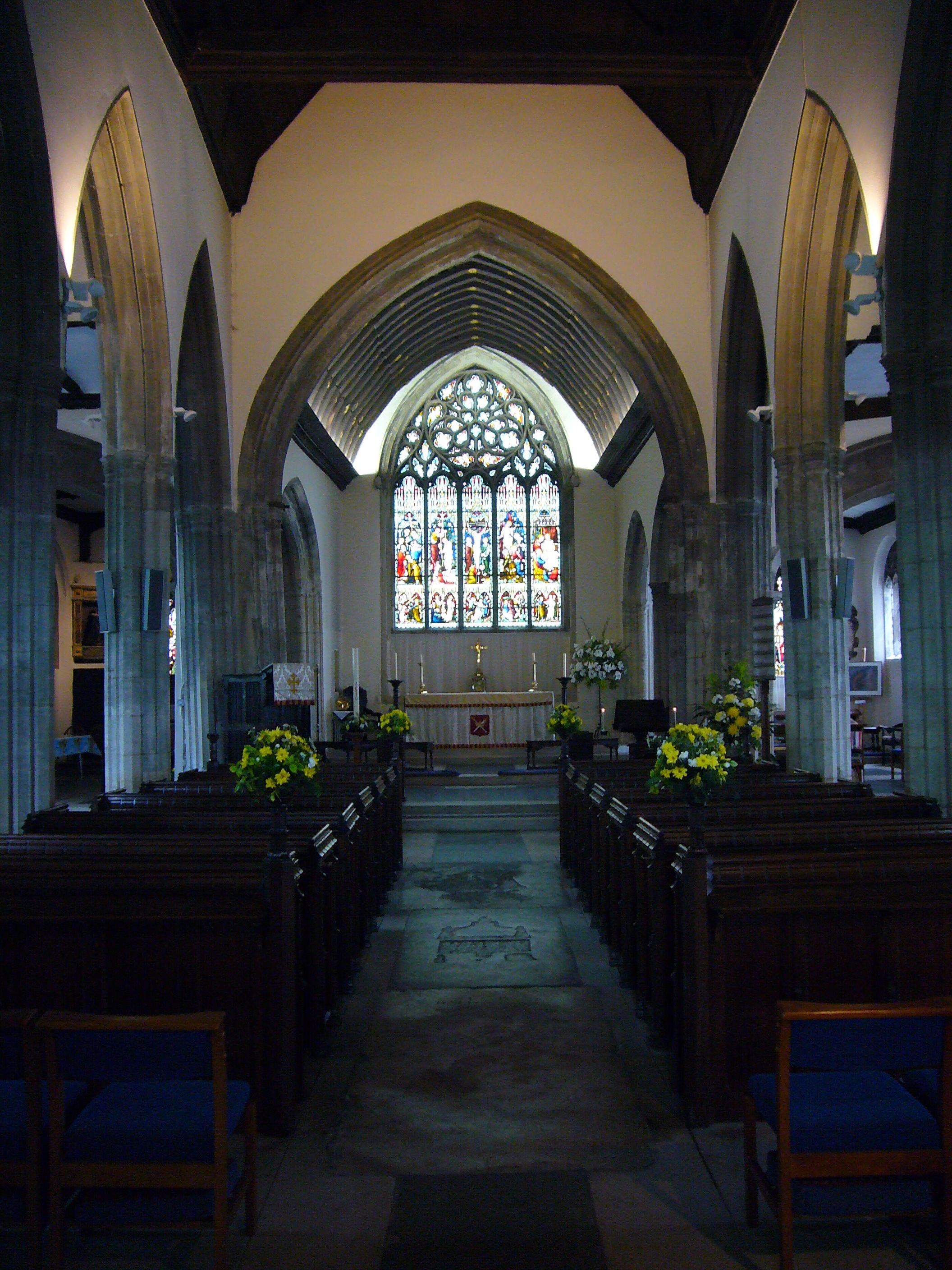 St Edward King and Martyr, Cambridge, UK